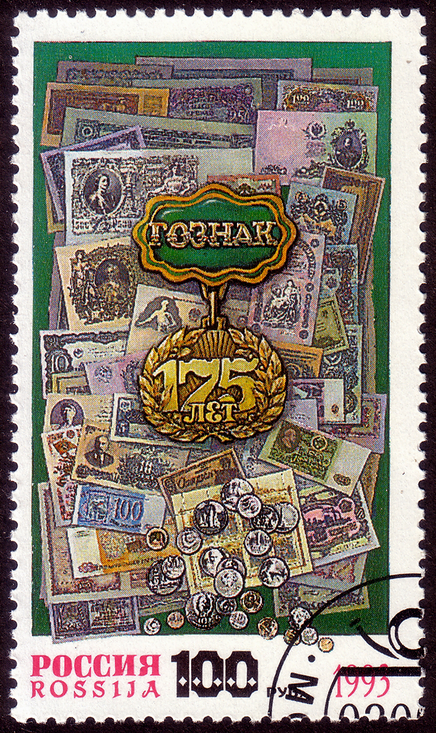 Stamps of Russia The 175th anniversary of Goznak, 1993